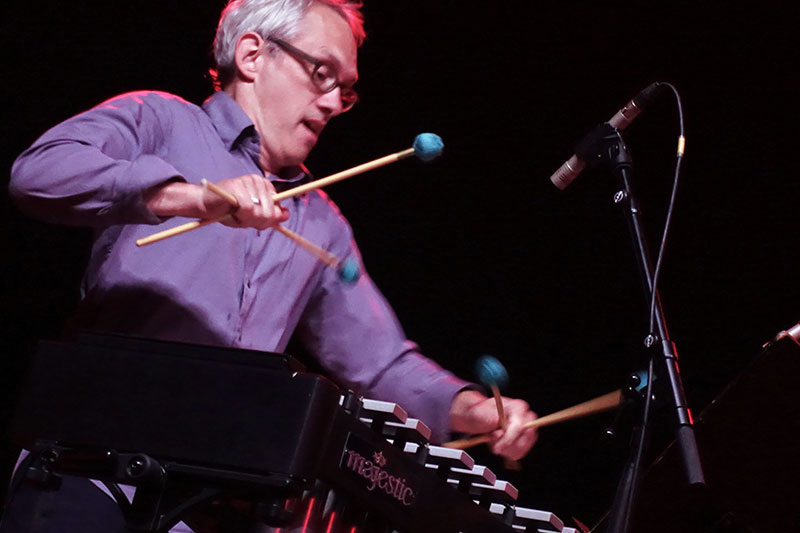 Matt Moran performing with Nat Wooley Quintet at Aarhus Jazz Festival, Denmark 2016